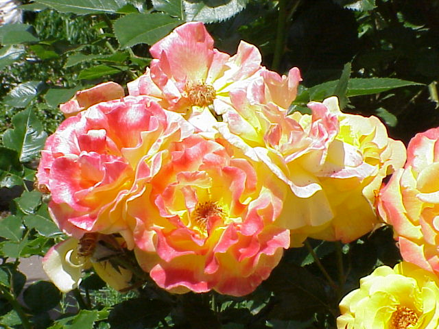 Species: Rosa sp. Family: Rosaceae Cultivar: Night Light Image No. 209